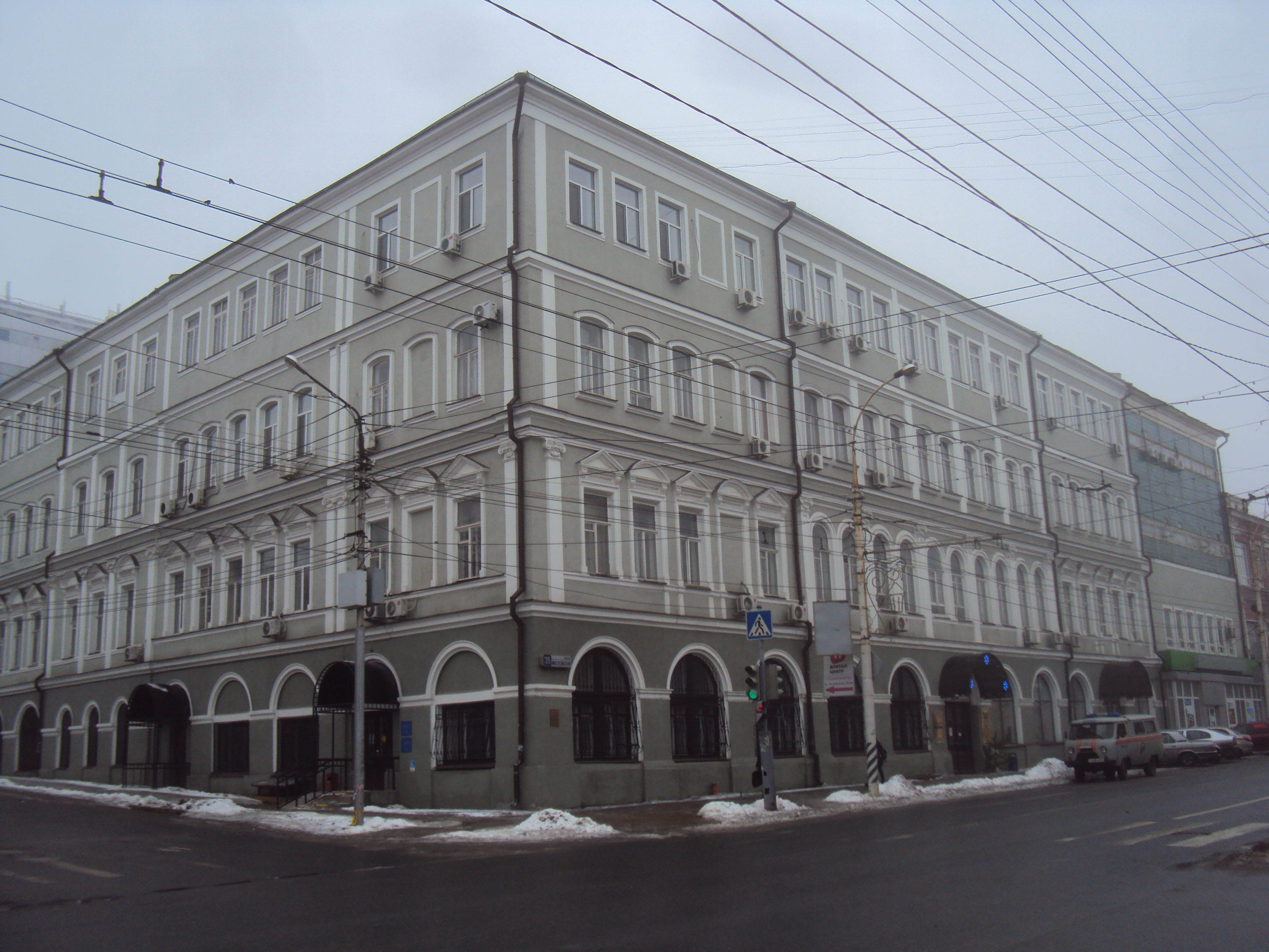 The building where the room of the city Duma took place the first meeting of the Saratov Soviet of workers ' deputies